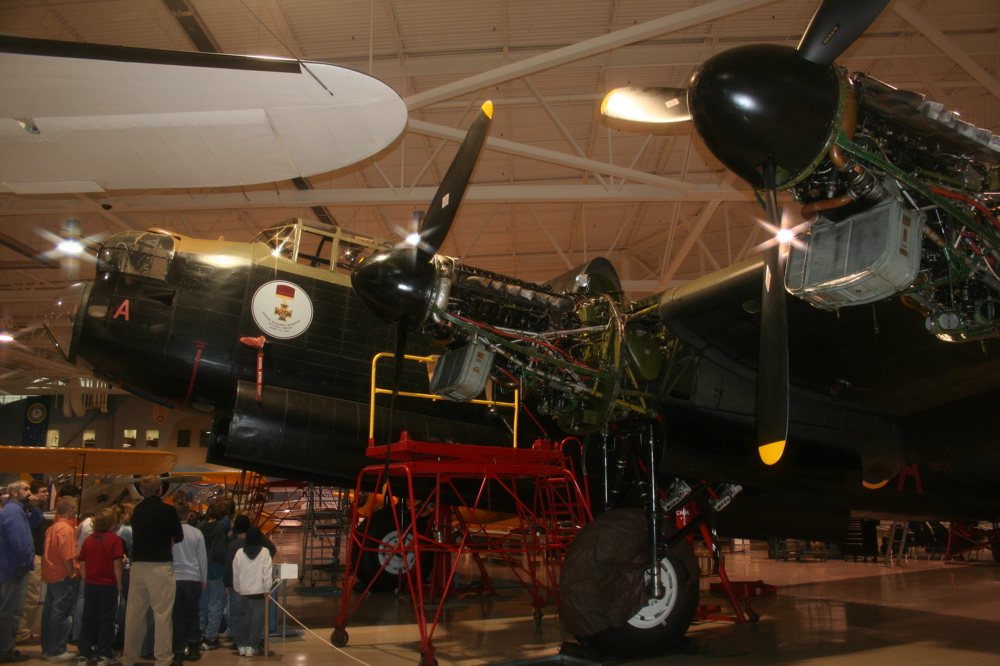 Mynarski Memorial Avro Lancaster, at the Canadian Warplane Heritage Museum, Hamilton Ontario.